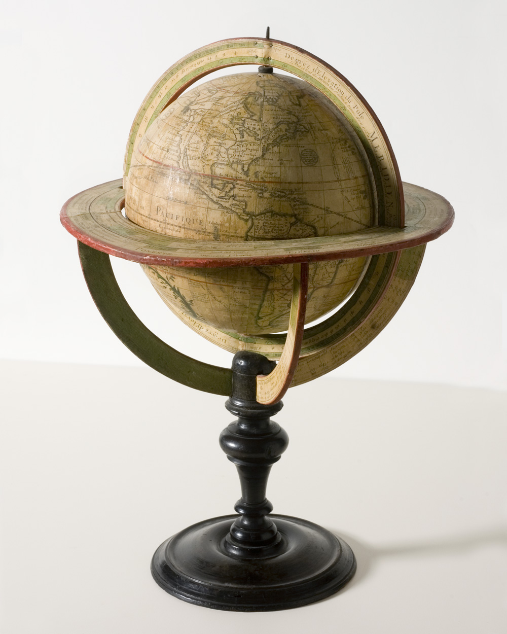 de l'Isle globe, 1765 A 1765 de l'Isle globe, generous in its depiction of the Mississippi River and showing a fictional Northwest passage. Few globes from this era have survived because of their inherent fragility. Collection of the Minnesota Historical Society.